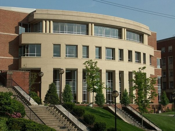 West Virginia Universities Downtown Campus Library